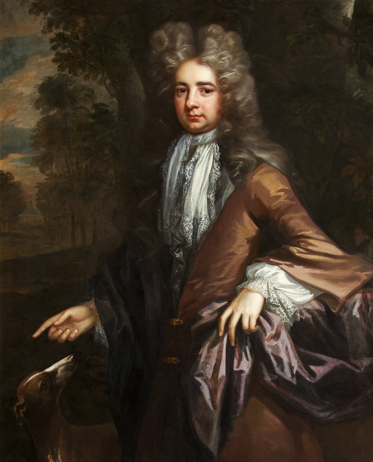 A 124 x 100 cm oil-on-canvas portrait painting of John Scrope attributed to Godfrey Kneller held at Bristol City Museum and Art Gallery